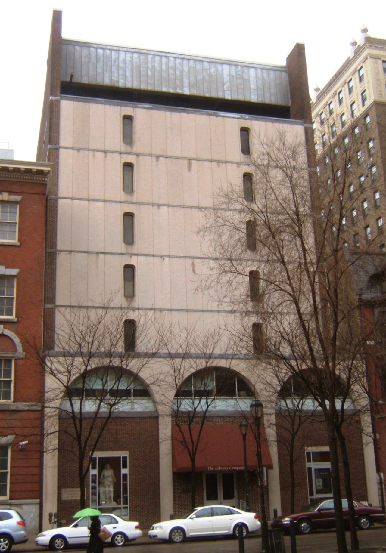 The Library Company of Philadelphia completed this new building, named the Ridgeway Library, in 1965, and opened it to the public in April, 1966. Street address: 1314 Locust Street, Philadelphia, PA 19107. Facade facing north.